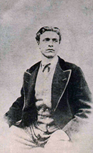 Photograph portrait of Vasil Levski (1837–73)